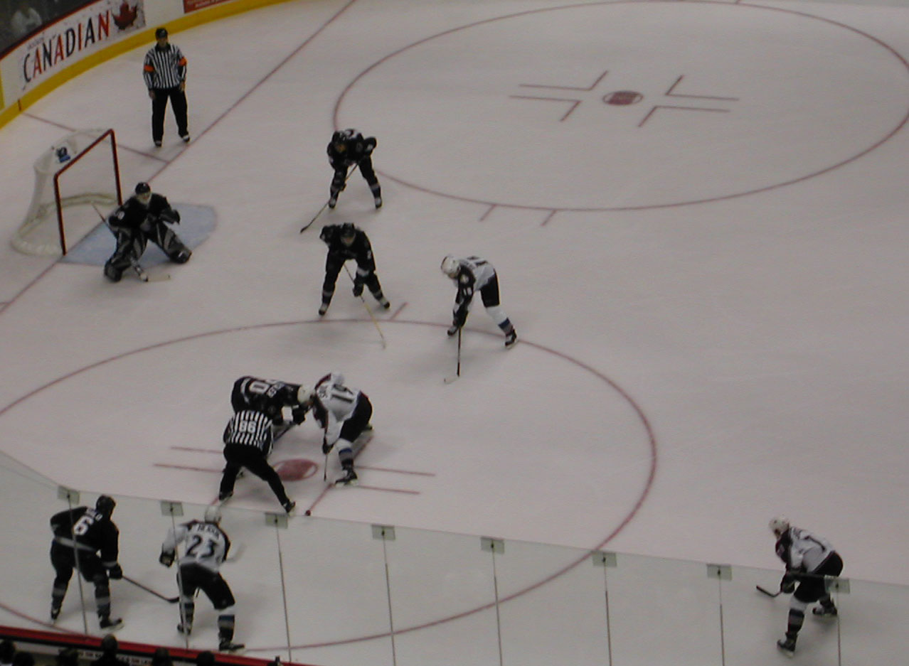 October 26, 2005 : It was a poor show from Colorado... until the final 5 minutes when they suddenly arrived at GM place and looked like they might just come back from 5-1 down. Final Score: 6 - 4, with Linden finishing the Avs off with an empty netter.